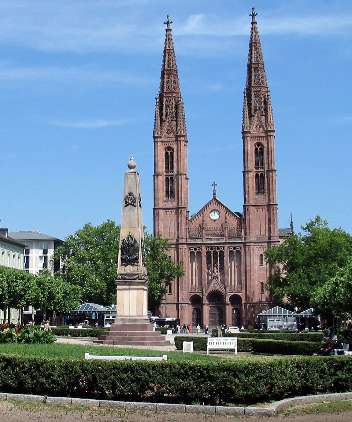 Luisenplatz (Luise Square) in Wiesbaden, Germany. Waterloo Obelisk in front. St. Boniface Church in the back, built between 1844 and 1849.